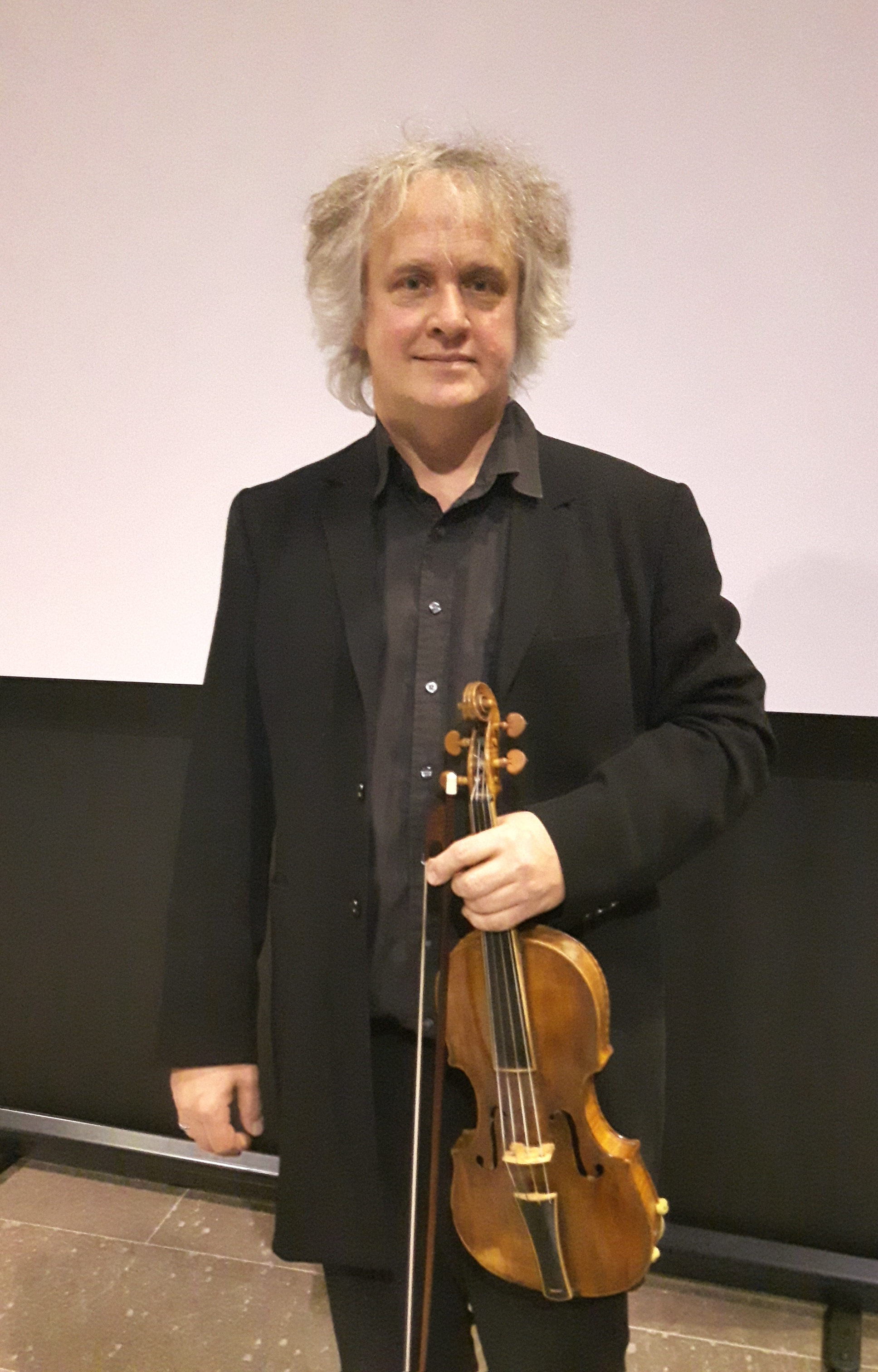 Swedish musician Torbjörn Köhl.